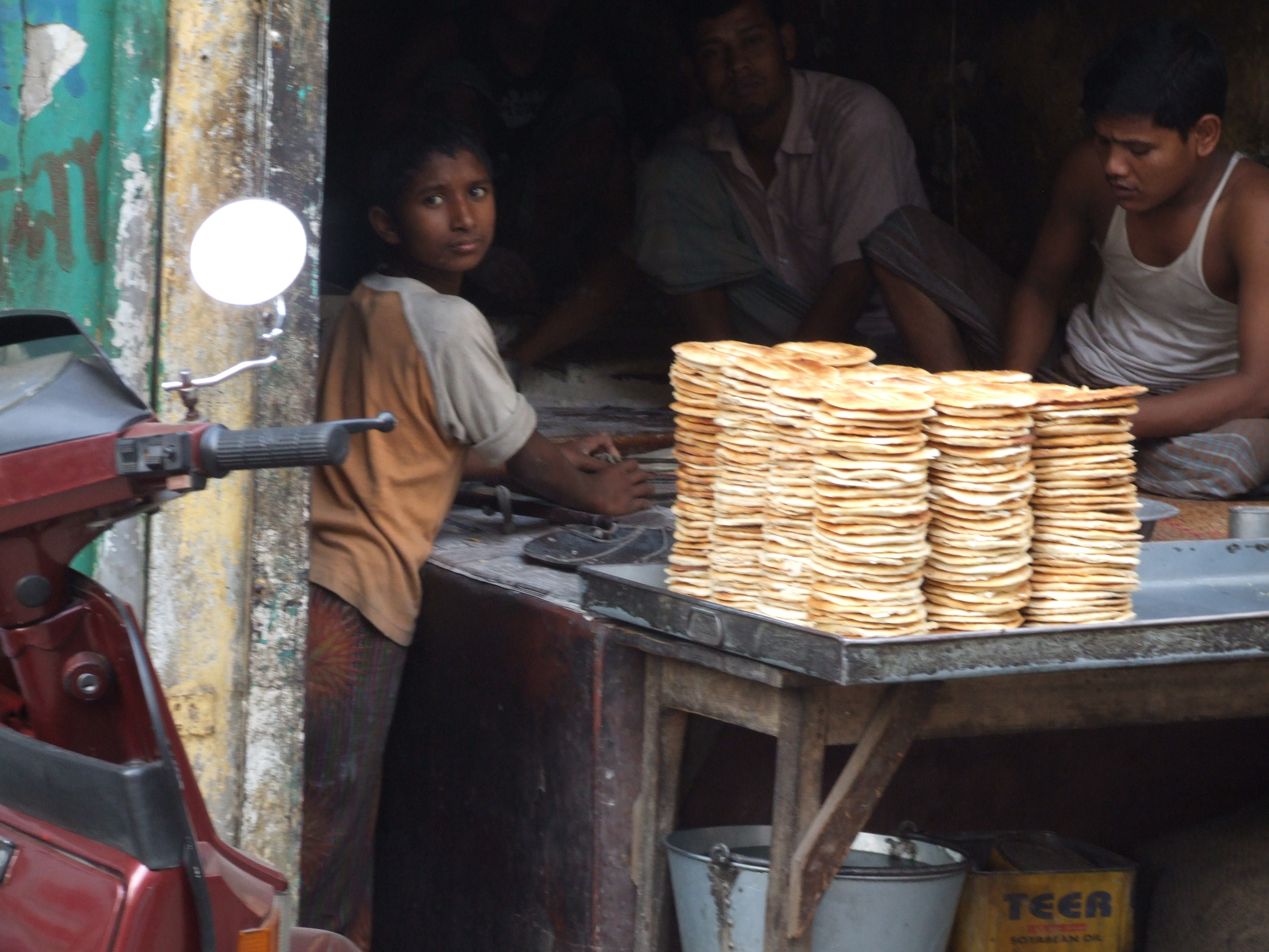 A typical bakorkhani shop in Old Dhaka, Bangladesh. My Students "Arafat & Hossien" helped me taking this picture.